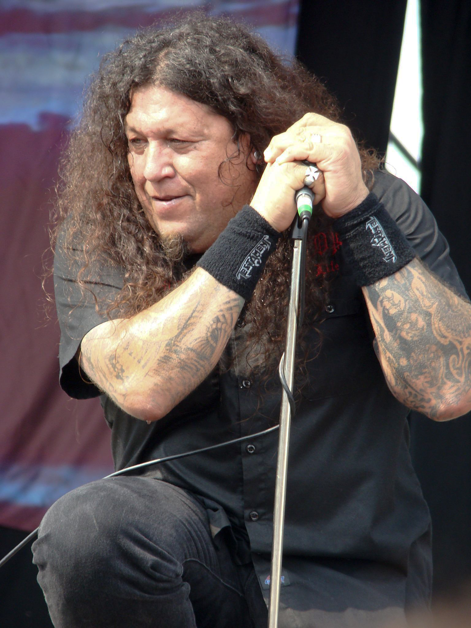 Testament's vocalist, Chuck Billy.